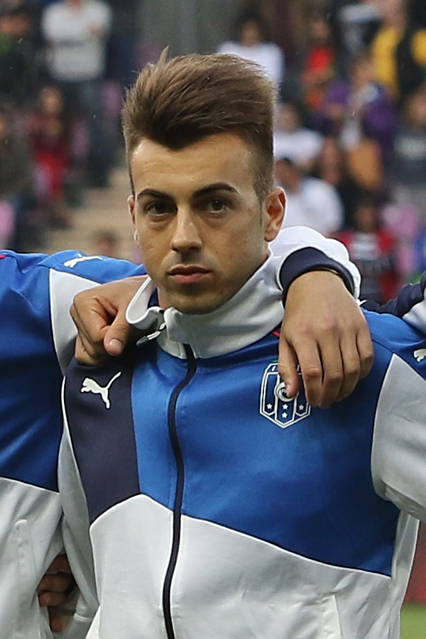 20150616 - Portugal - Italie - Genève - Stephan El Shaarawy